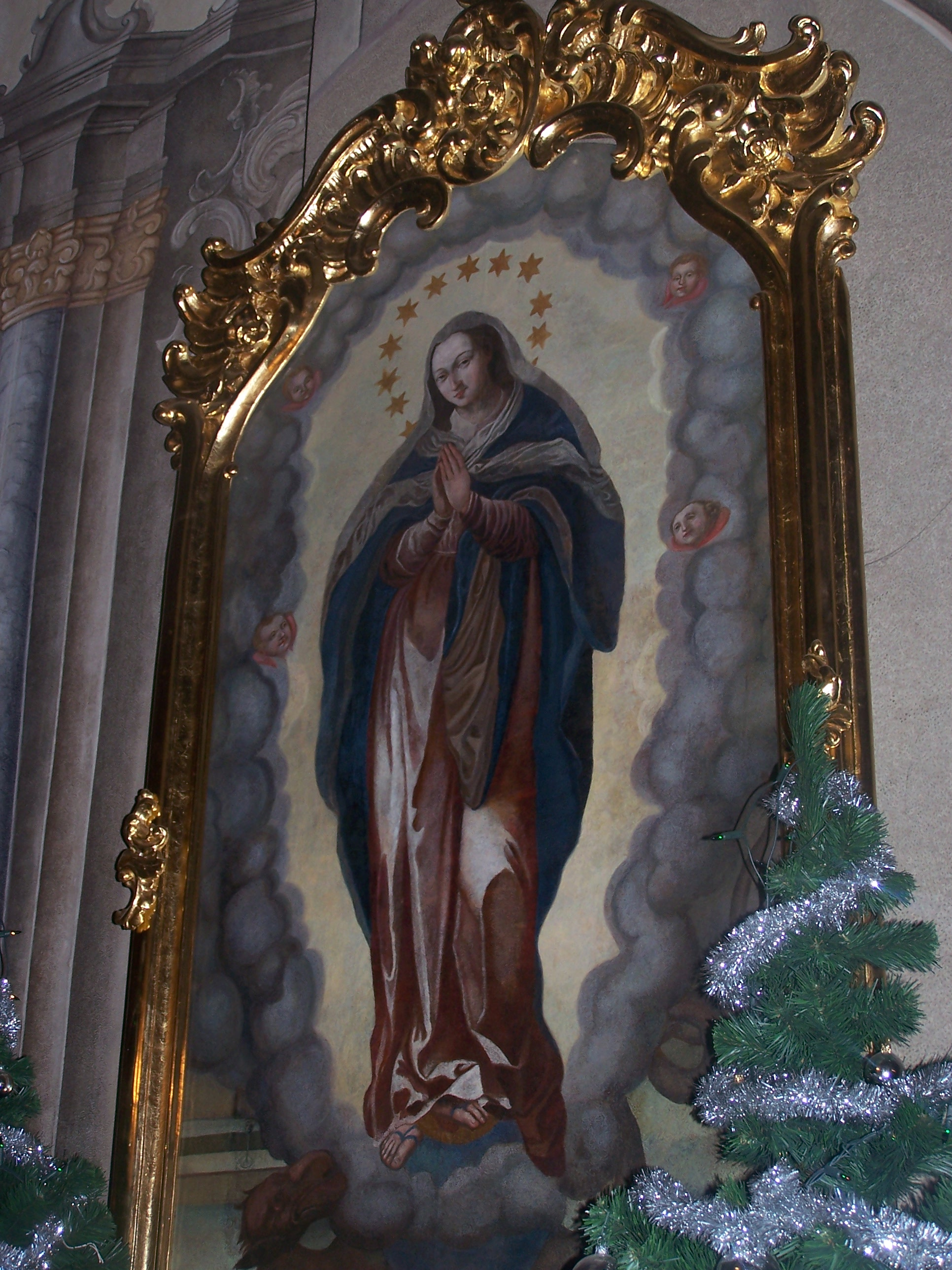 Picture of Our Lady (Woman of the Apokalipse) in Bernardine's Church in Przeworsk (Poland)